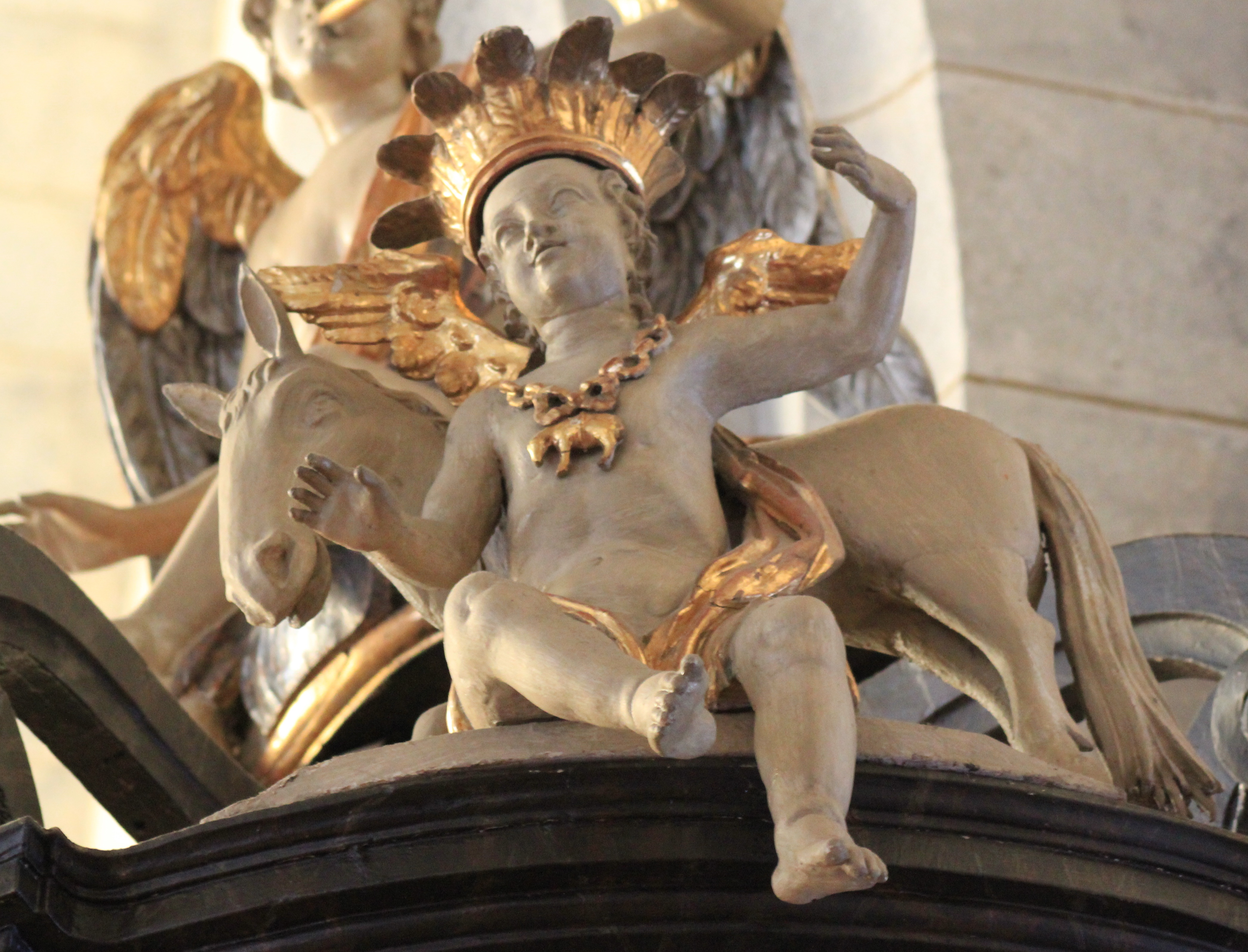 Parish church of Friesach: Detail of the pulpit